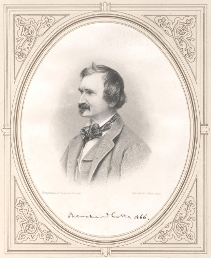 Plate 10 Photograph album of German and Austrian scientists. Dr. Rudolf Ludwig, Darmstadt; Bernhard von Cotta, Freiberg; Dr. Ludwig Büchner, Darmstadt; Dr. Joh. Wislicenus; Dr. W. Kobelt, Schwanheim/Main; Dr. Fritz Schultze, Dresden.